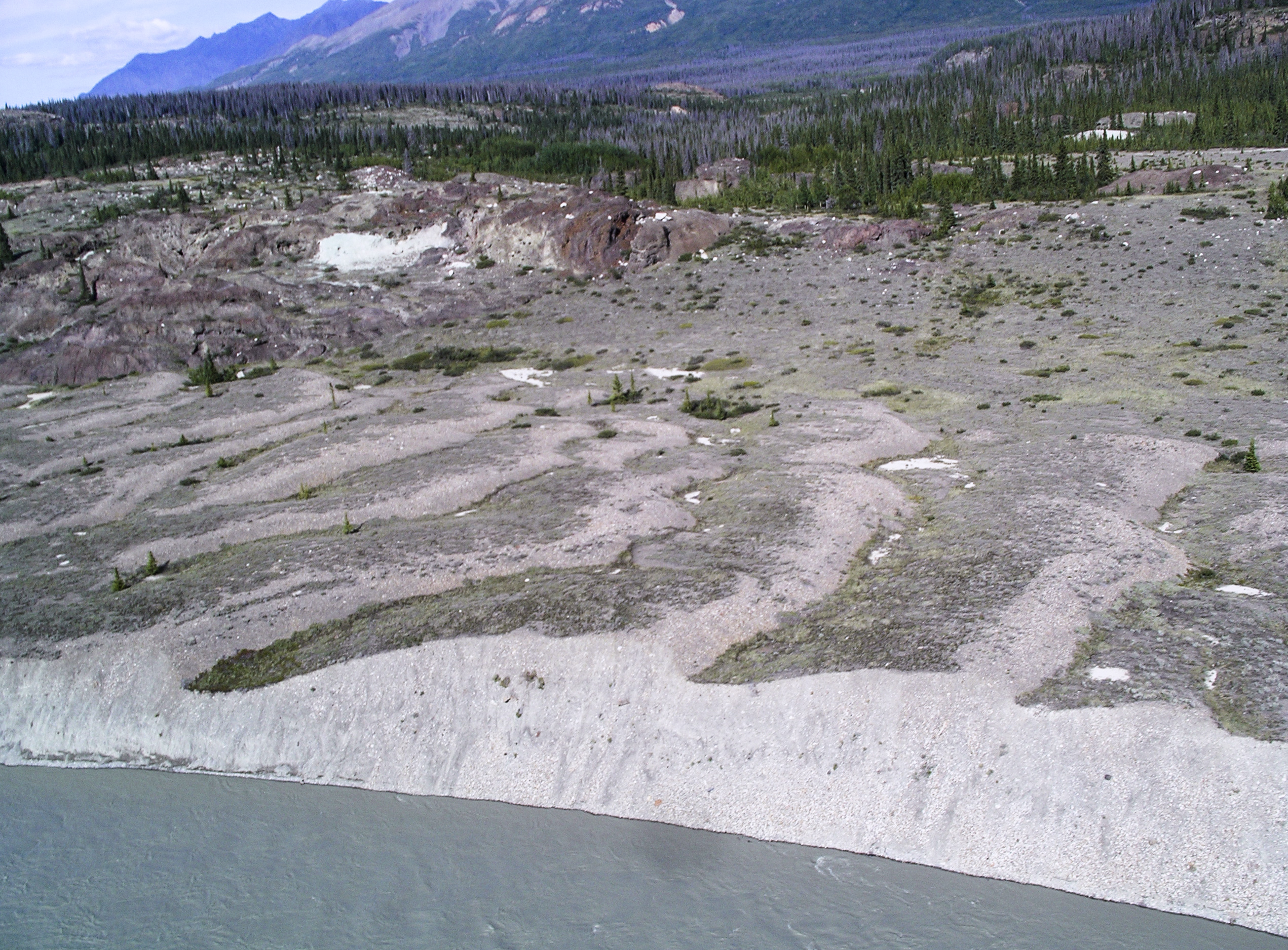 Neoglacial Lake Alsek, Alsek River Valley dunes